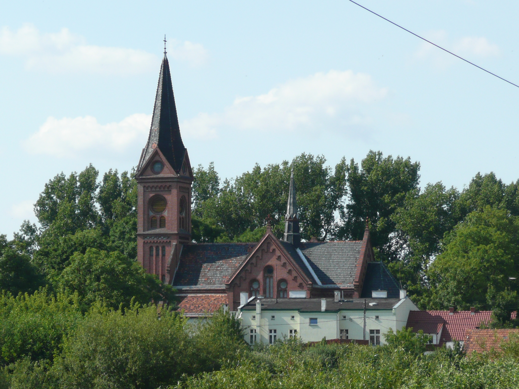 The church in Barcin, Poland.